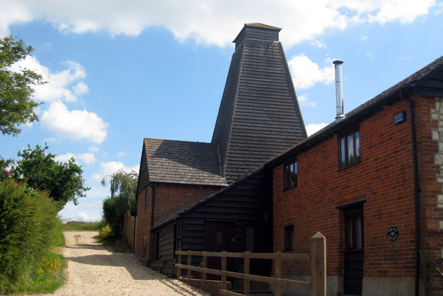 Old Hop Kiln, Blanket Street, East Worldham, Hampshire